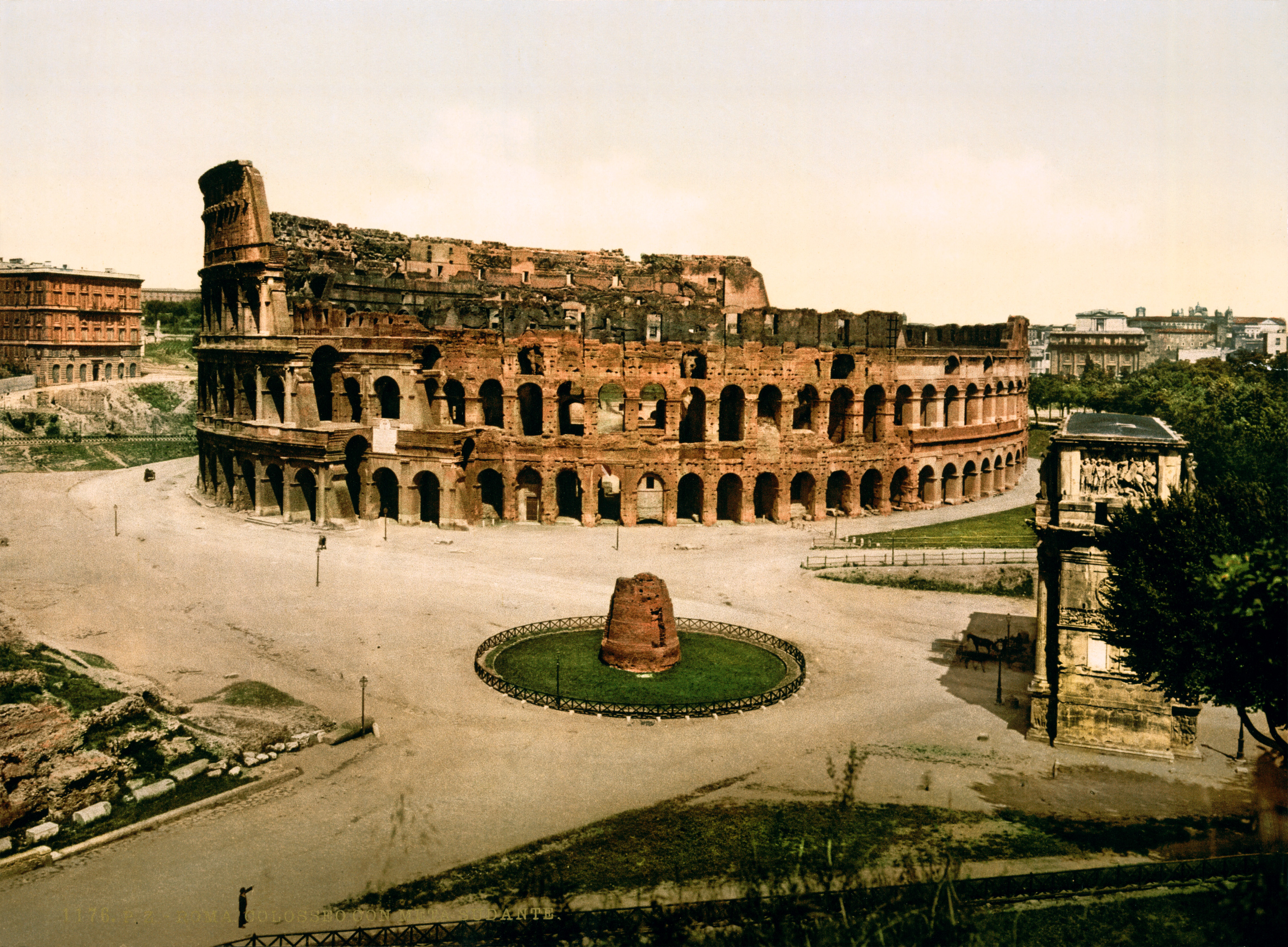 Colosseum and Meta Sudans, Rome, Italy